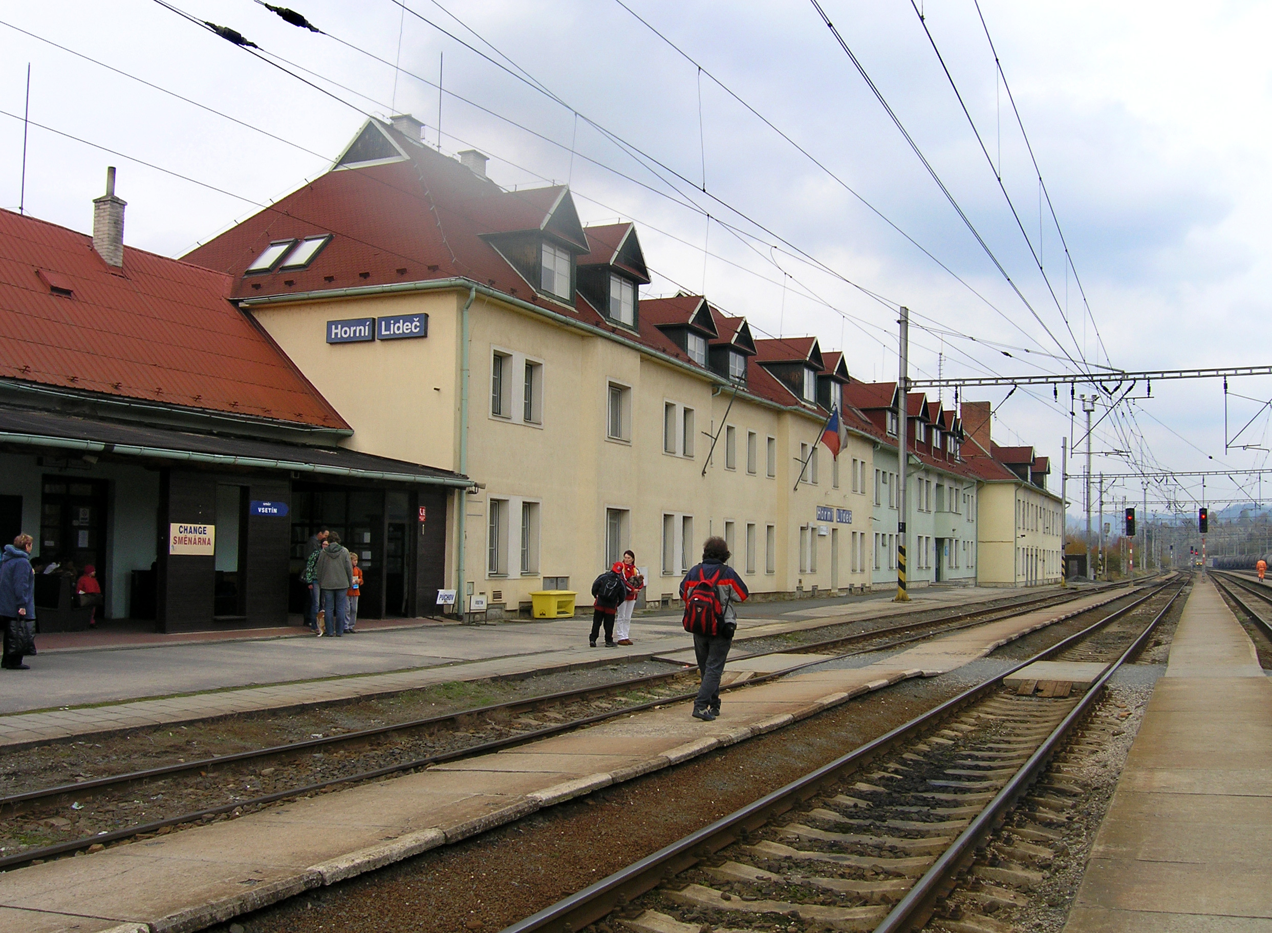 Railway station in Horní Lideč, Czech Republic